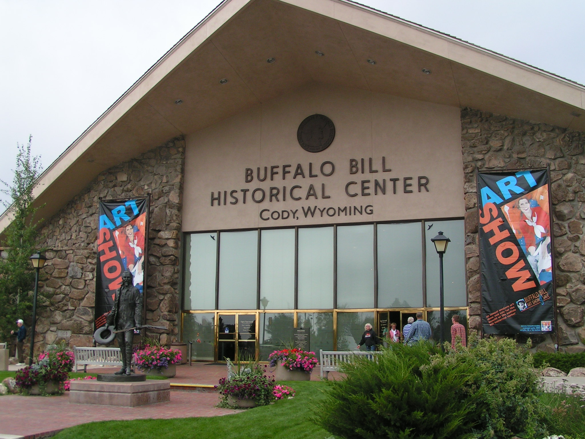 Entrance to the Buffalo Bill Historical Center in Cody, Wyoming.